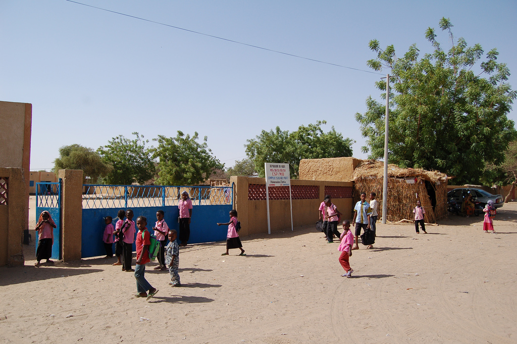 The gate of a school and school children. Diffa, Niger. April 2008